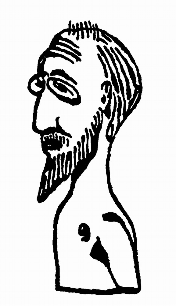 Erik Satie: autoportret Projet pour Buste Tombe (1913).